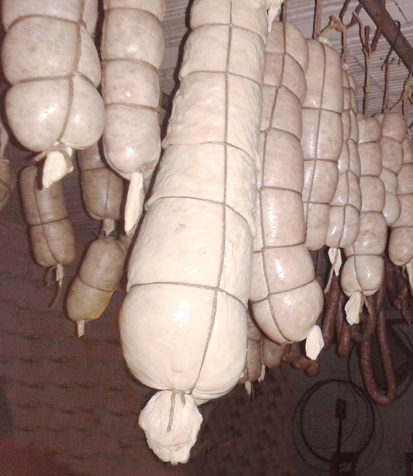 "Salame gentile" and "sotto-gentili" freshly made.